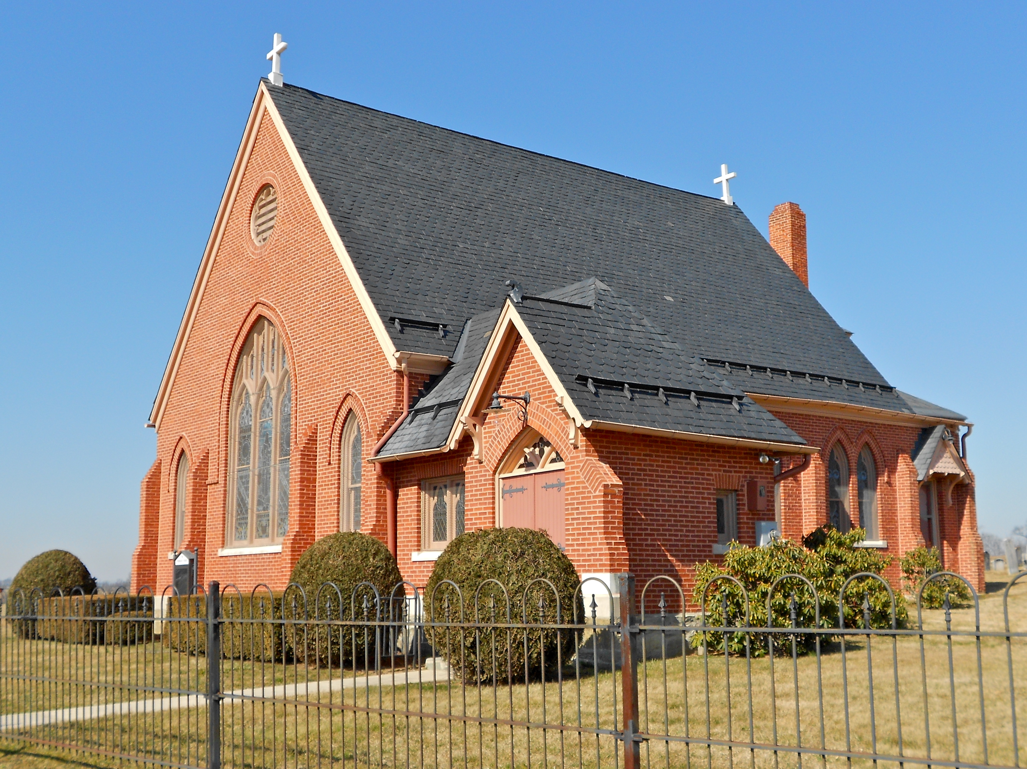 Harbaugh's Reformed Church on the NRHP since March 20, 2002 at 14301 and 14269 Harbaugh Church Road, Washington Township, Franklin County, Pennsylvania. Pennsylvania State Historical Marker (PHMC) in front refers to birthplace of Dr. Henry Harbaugh, Penn-German theologian and educator born 1.5 miles away. "Reformed" in this context likely means "Reformed Lutheran" rather than "Dutch Reformed"